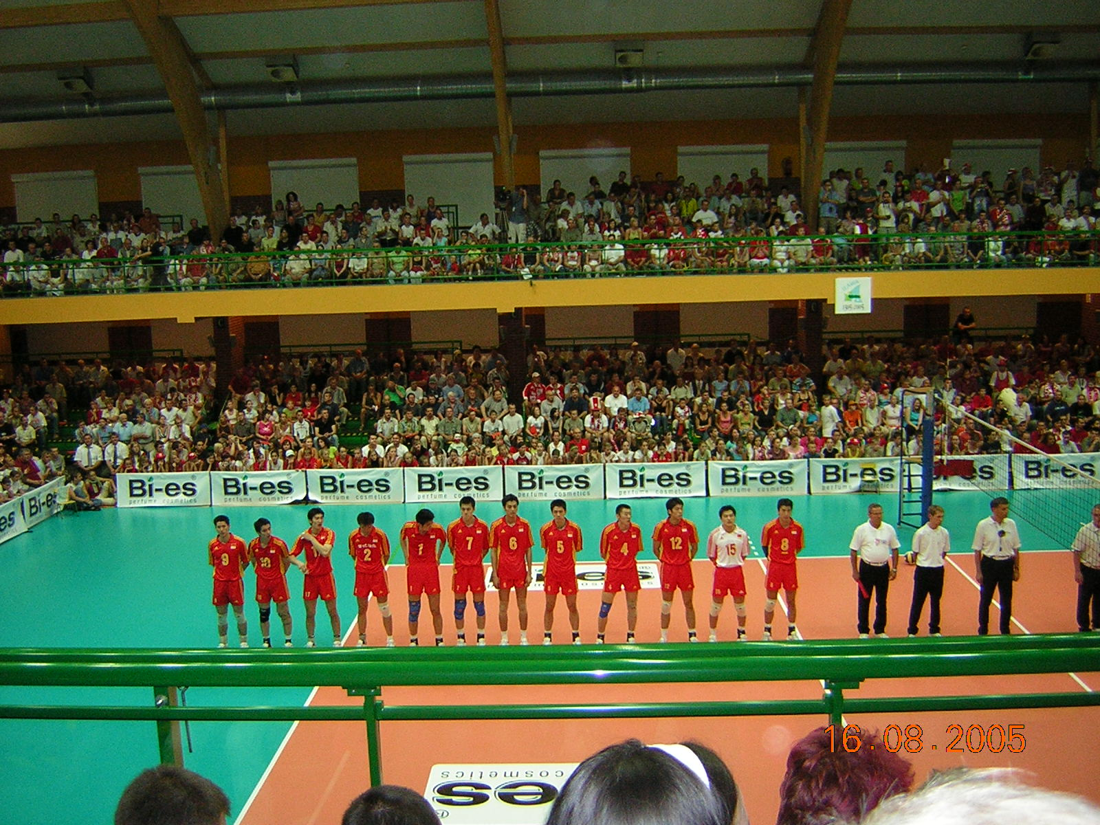 National team of Republic of China at Hubert Wagner Memorial, 18th august 2005 in Iława, Poland